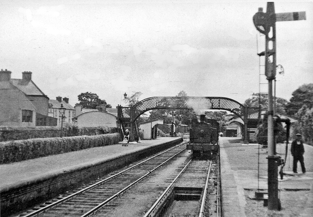 Drimoleague Junction Station. View eastwards, towards Bandon and Cork; ex-Cork, Bandon & South Coast Railway. This was the junction for Skibbereen; the main line Cork (Albert Quay) to Bantry and the Skibbereen branch were closed on 1/4/61. [I was unable to locate this station at all precisely because the locating tool did not work. It may be in W1245!]